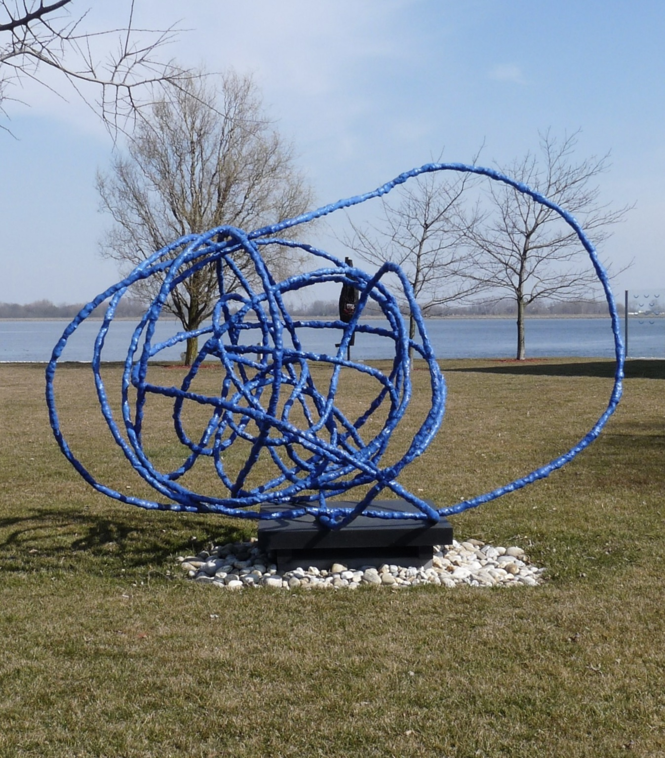 My mind is running (sculpture)